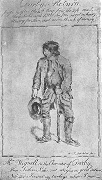 Thomas Wignell as Darby in Dunlap’s Darby’s Return (c. 1789); from William Wood's Personal Recollections of the Stage, Henry Carey Baird, Philadelphia, 1854.